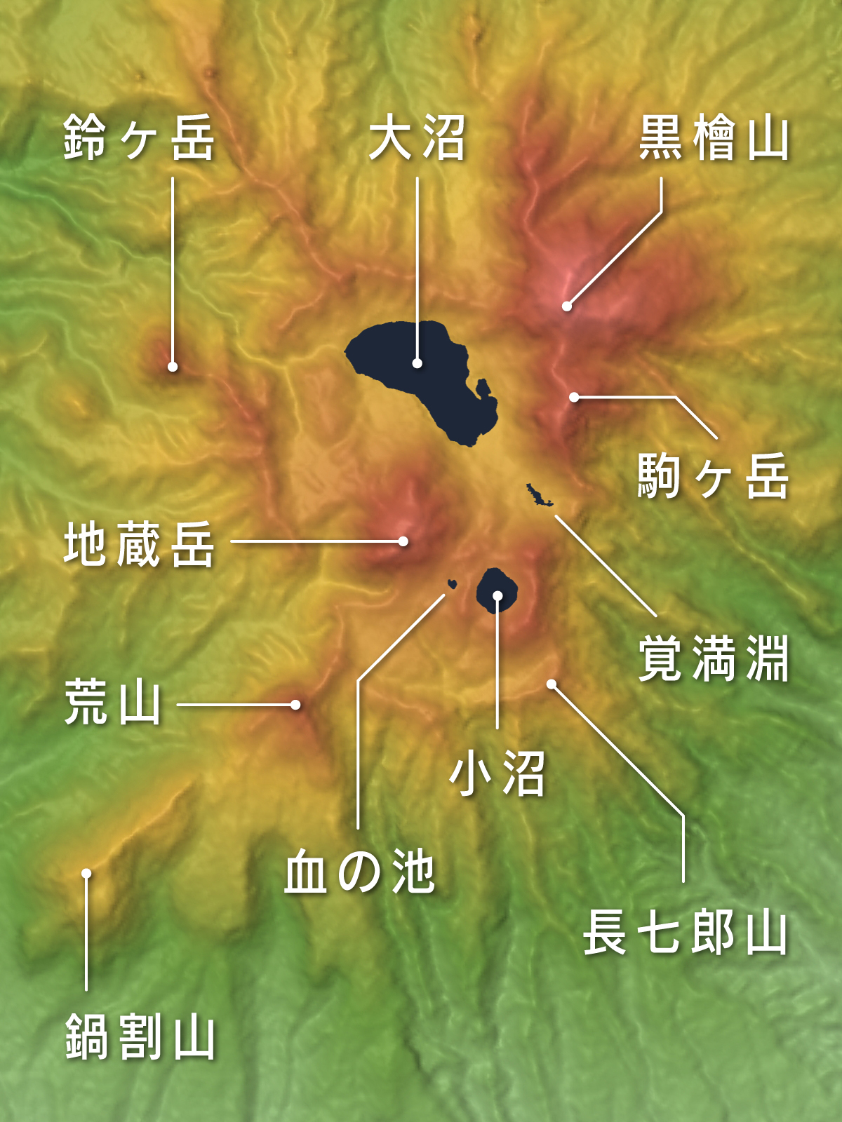 Mount Akagi in Gunma Prefecture, Honshu, Japan.